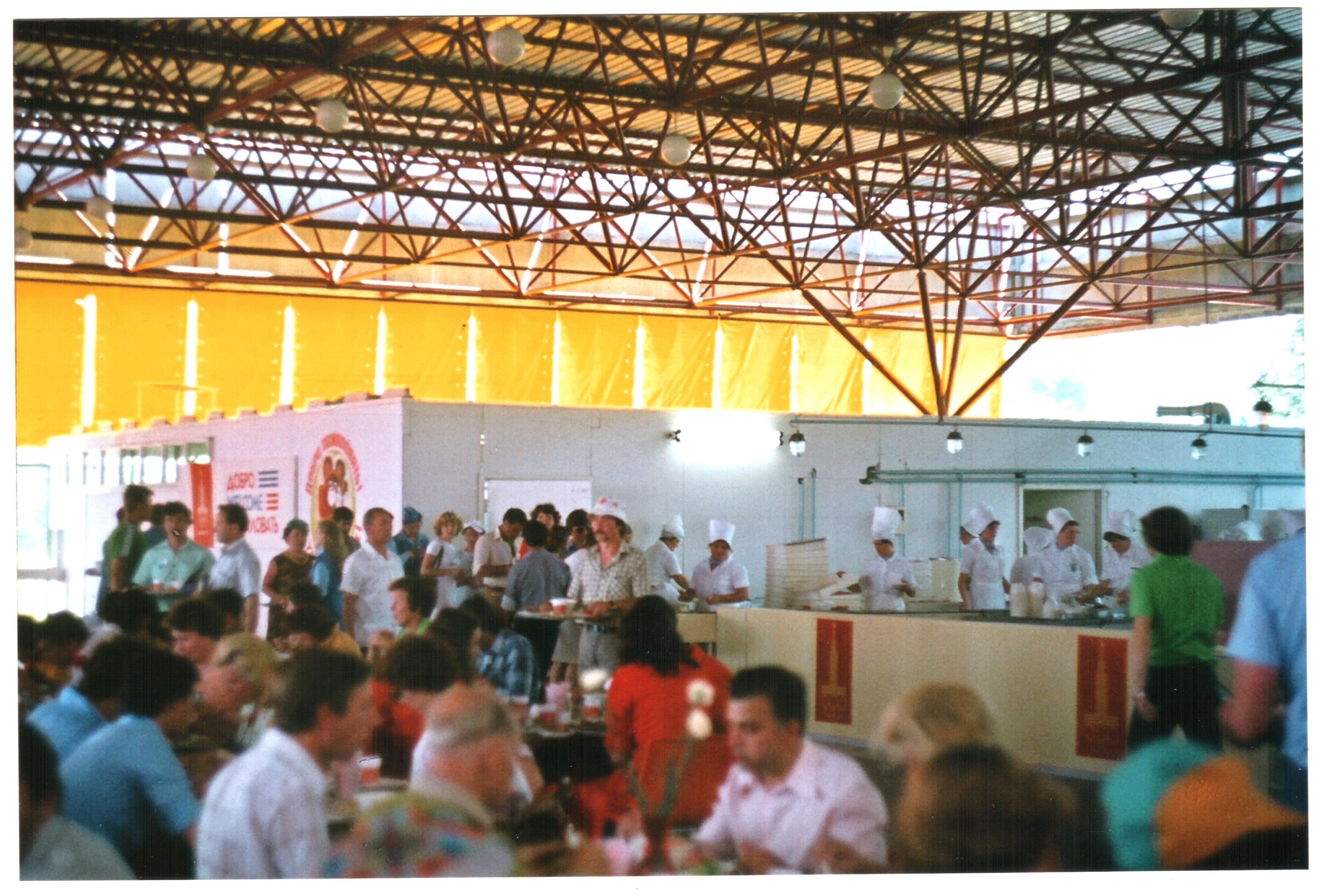 Moscow Olympic Games, 1980. Live in Moscow, in the Summer, 1980. I travelled with a Hungarian group of fans, from Budapest, Hungary. Published under Creative Commons in the Metapolisz DVD line.